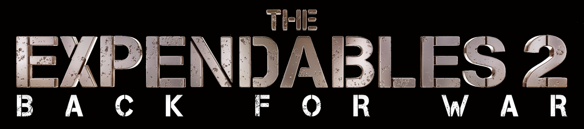 Official logo of the movie The Expendables 2